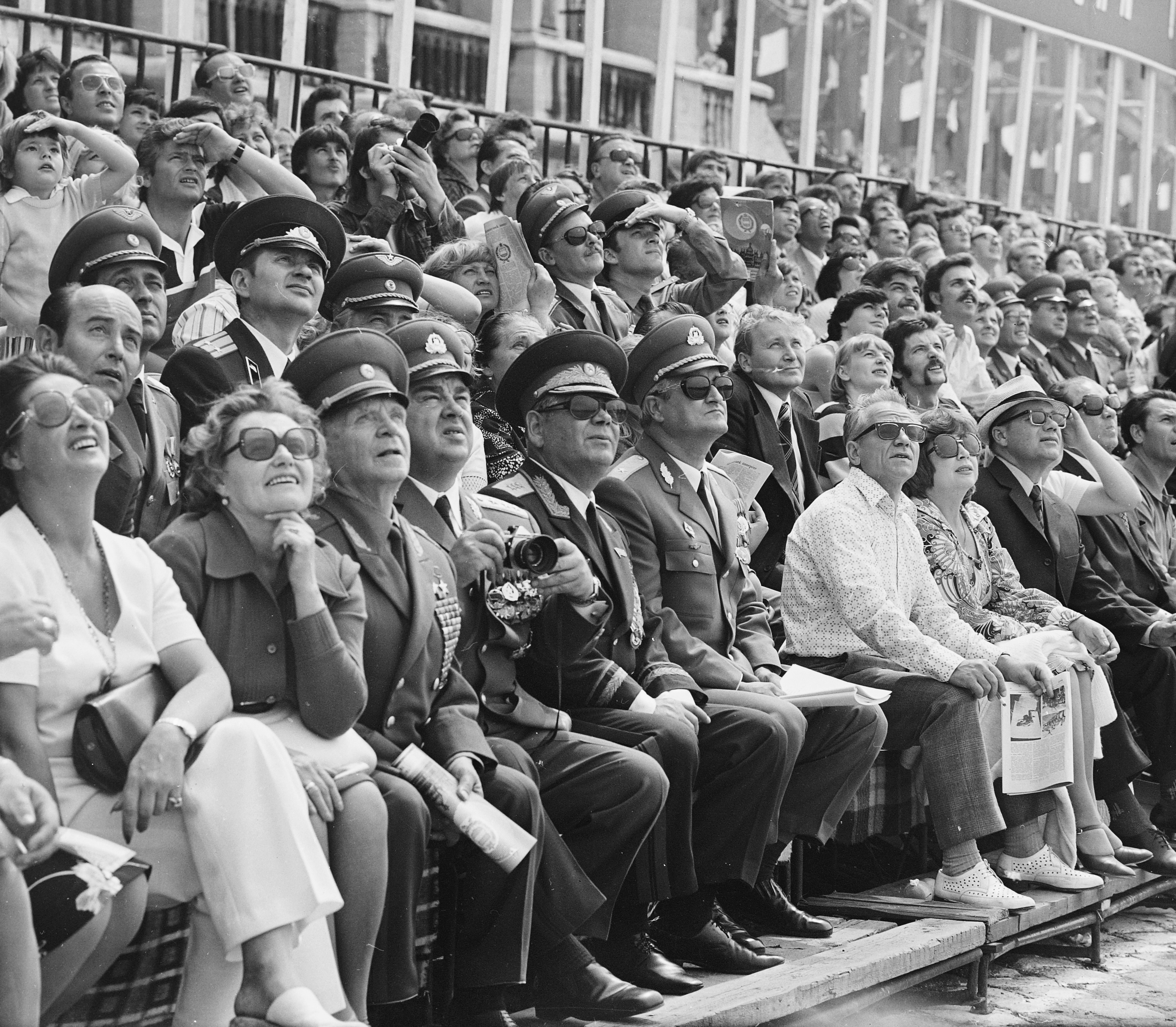 Lajos Czinege defense minister of Hungary with camera, Mikhail Kalashnikov in white shoes on the right side.